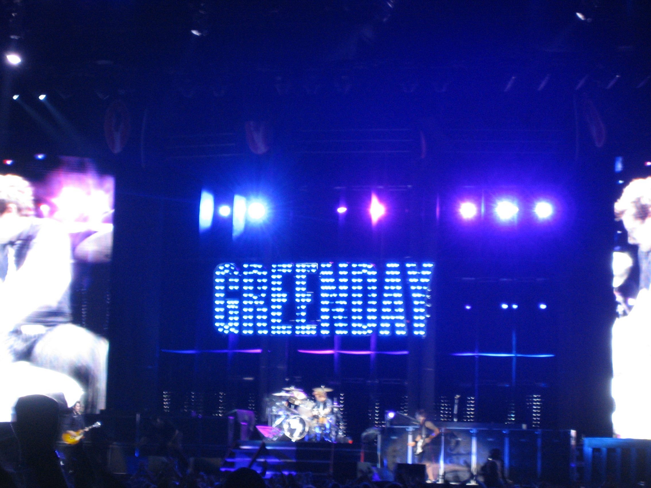 Green Day in concert, at the Gillette Stadium, MA 2005, on their American Idiot world tour.